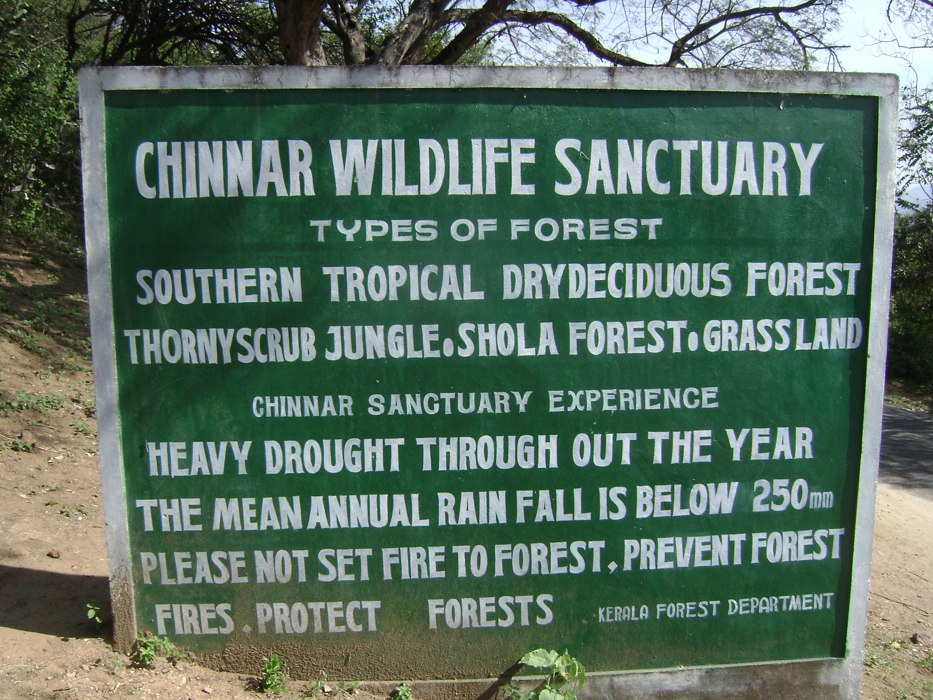 Chinnar Wildlife Sanctuary sign